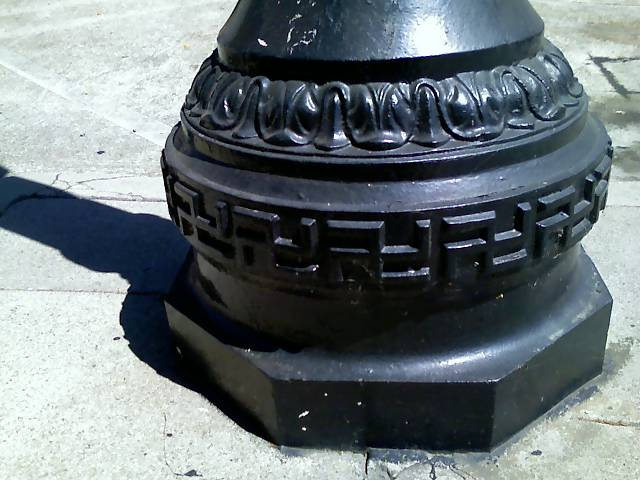 Swastikas on a lamppost in Uptown Whittier, California.